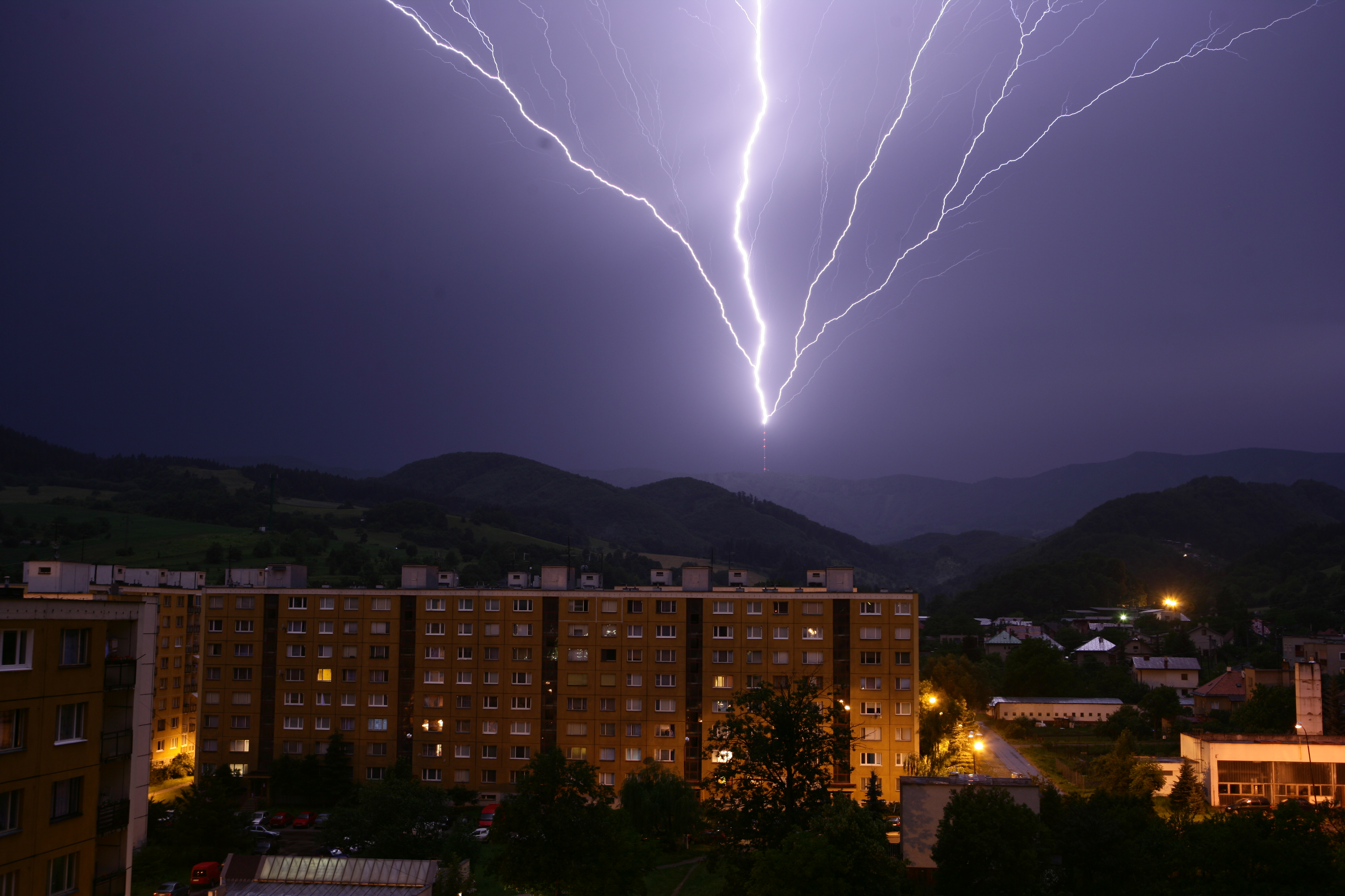 A lightning hitting Suchá Hora transmitter in Central Slovakia as seen from Banská Bystrica.